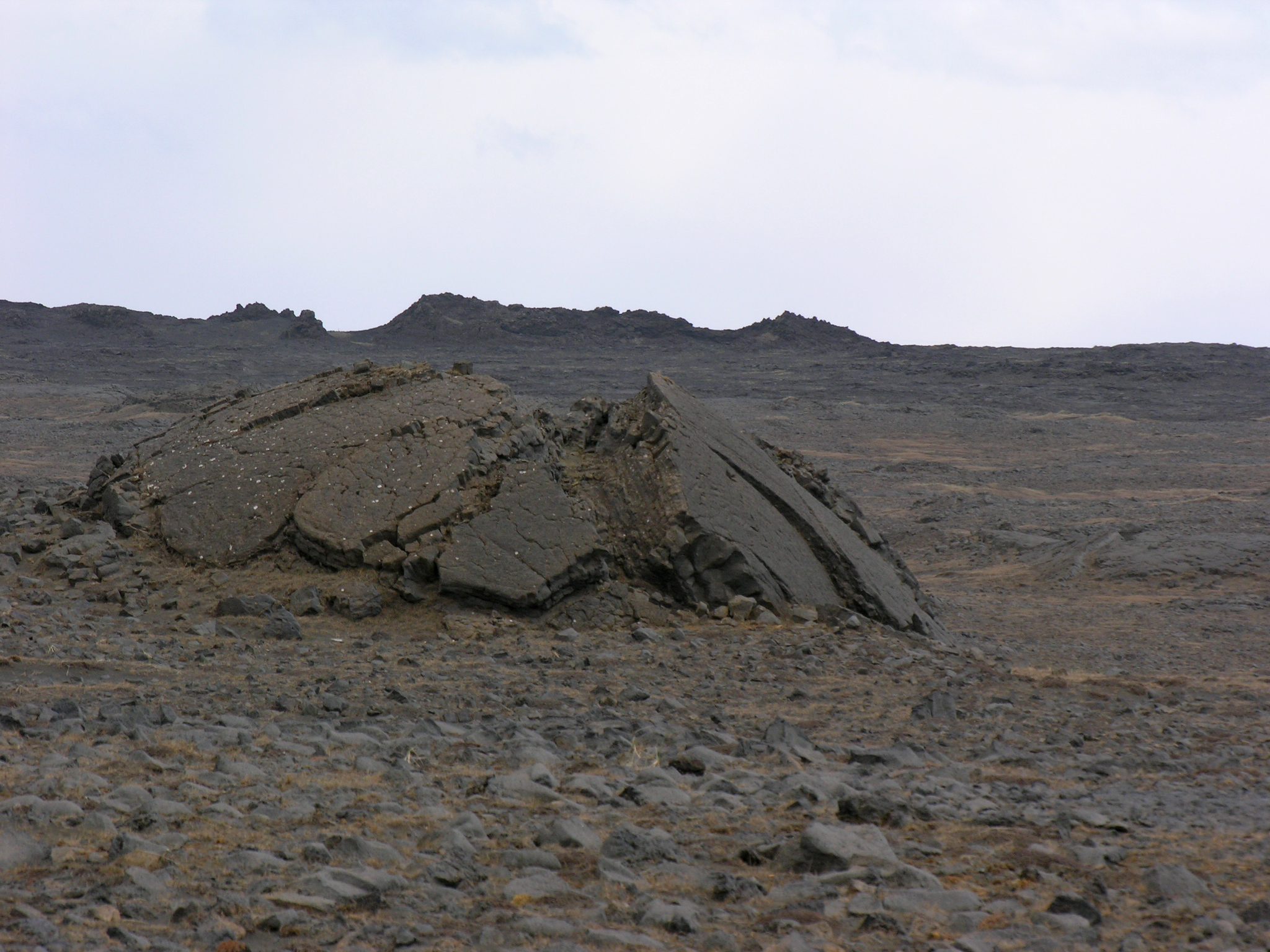 Iceland, Reykjanes